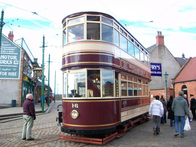 Beamish Museum, County Durham, England. This is the view west down the main street in Town, from its east end where the tramway curves to follow the street south. There is a combined tram/bus stop on the curve (waiting room on the right) - Tram No. 16 is seen here loading, during an east/south bound journey.